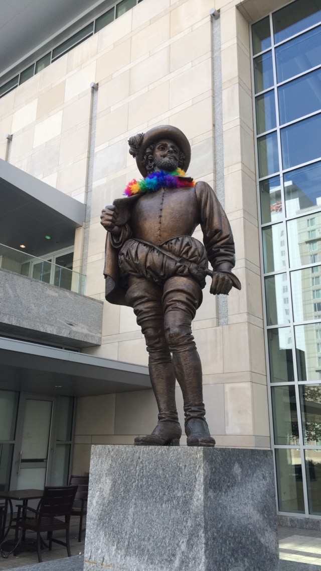 A rainbow feathered necklace hung over the Sir Walter Raleigh Statue outside the Convention Center in Raleigh, North Carolina